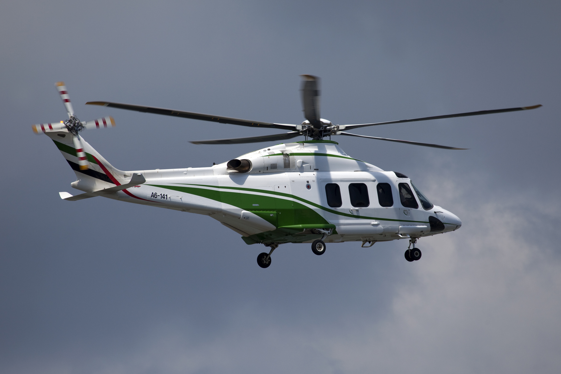 Corfu-Greece